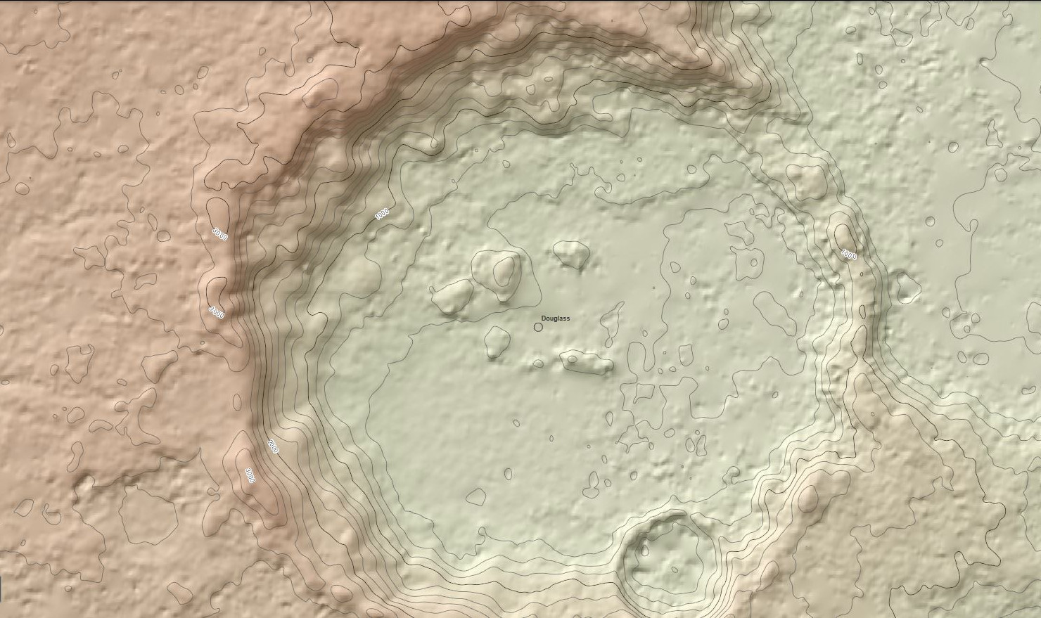 This topographic map was created using Mars Orbiter Laser Altimeter (MOLA) technology on the Mars Global Surveyor spacecraft. This image is a screenshot of RedMapper's website. A topographic map created using Mars Orbiter Laser Altimeter (MOLA) data. This map show the relative elevation in 100 meter elevation contour lines (dashed) and 500 meter elevation contour lines (bold) with a total elevation uncertainty of +/- 6 meters.